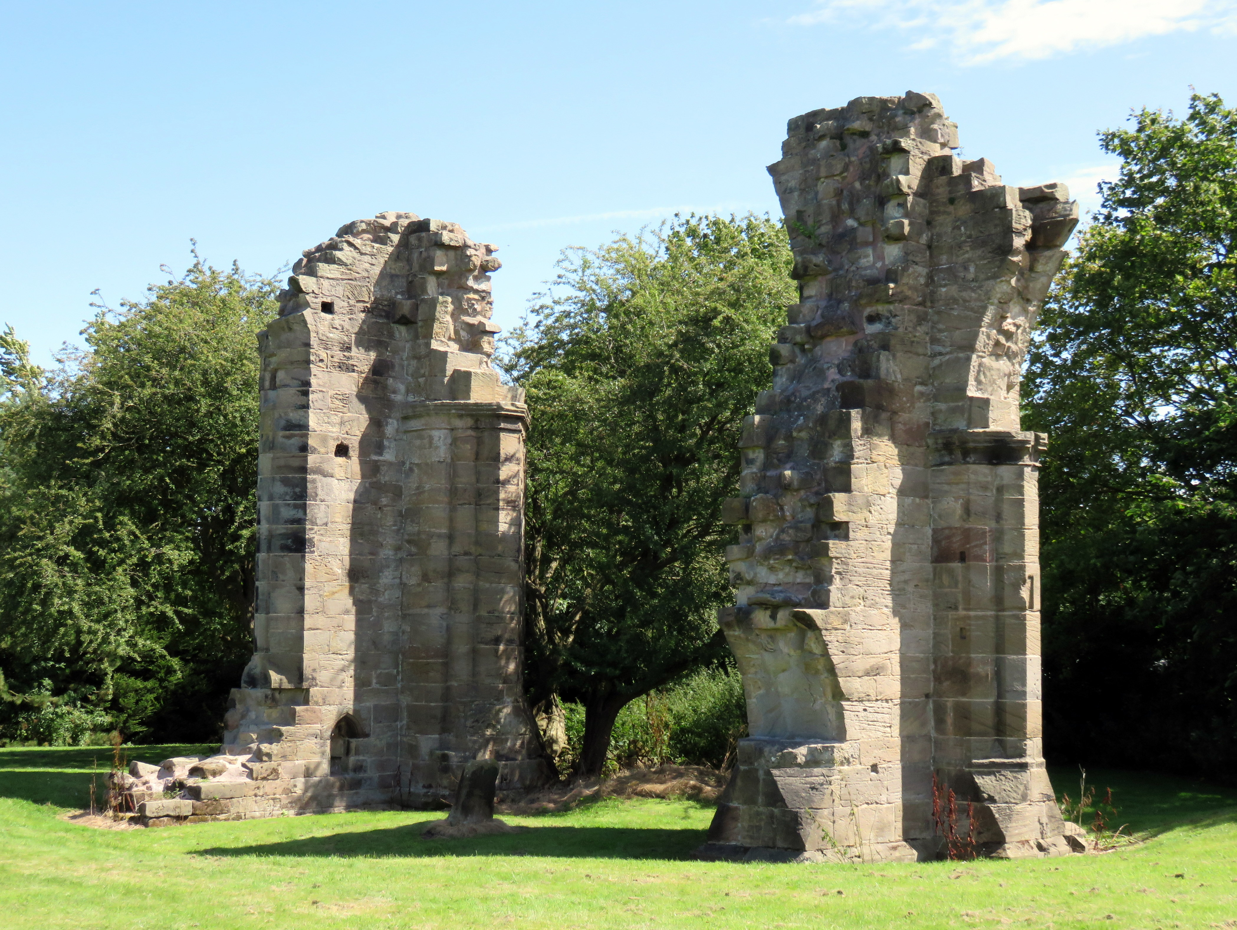 Ruins of Burscough Priory, taken during the "War Horse Walk" in August 2014.